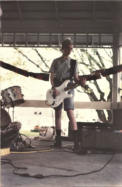 Kathi Wilcox performing with Bikini Kill in Olympia on May 1, 1991